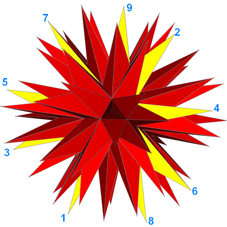 Echidnahedron with enneagrammic face